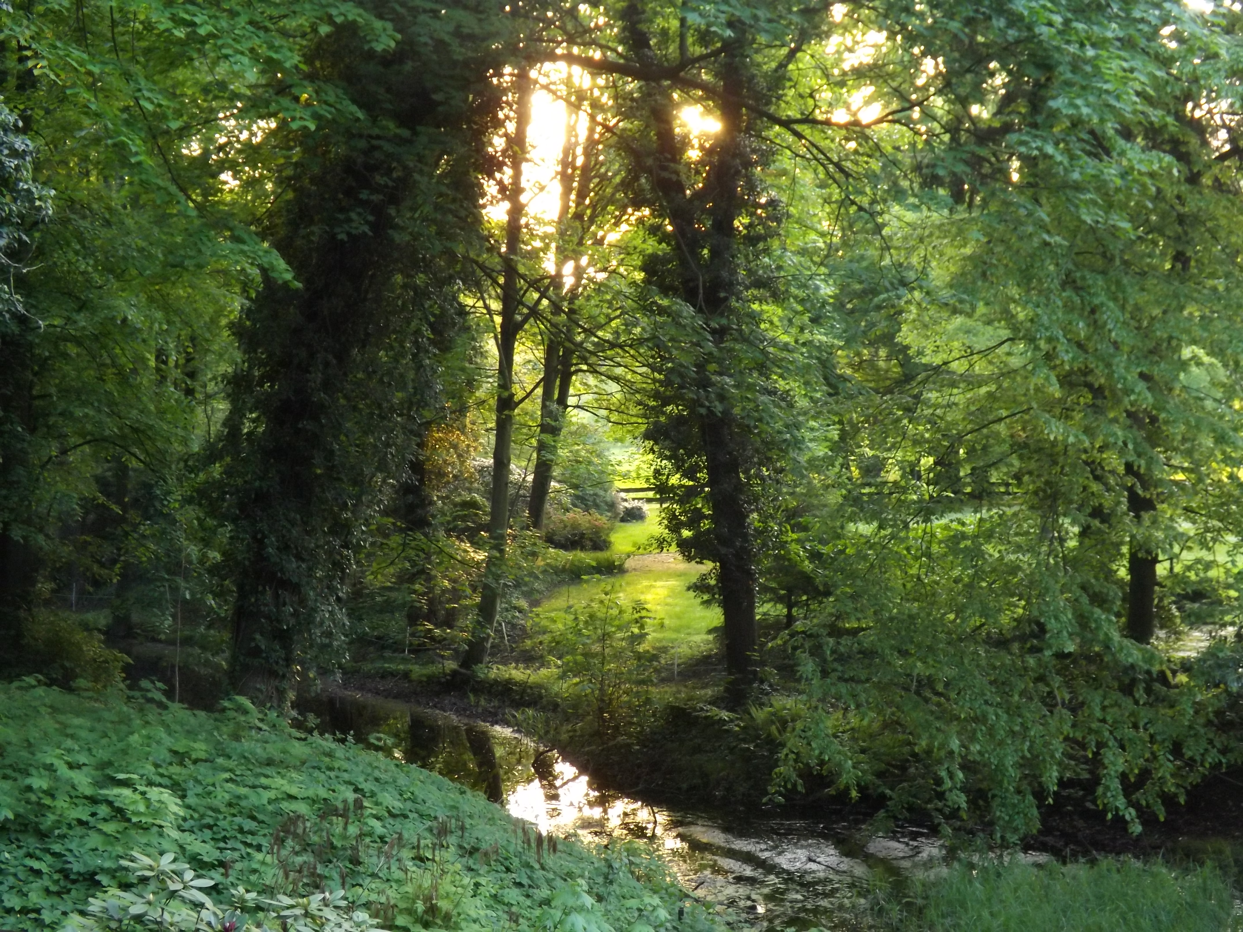 The Bäke river in Kleinmachnow, Germany (near Berlin)